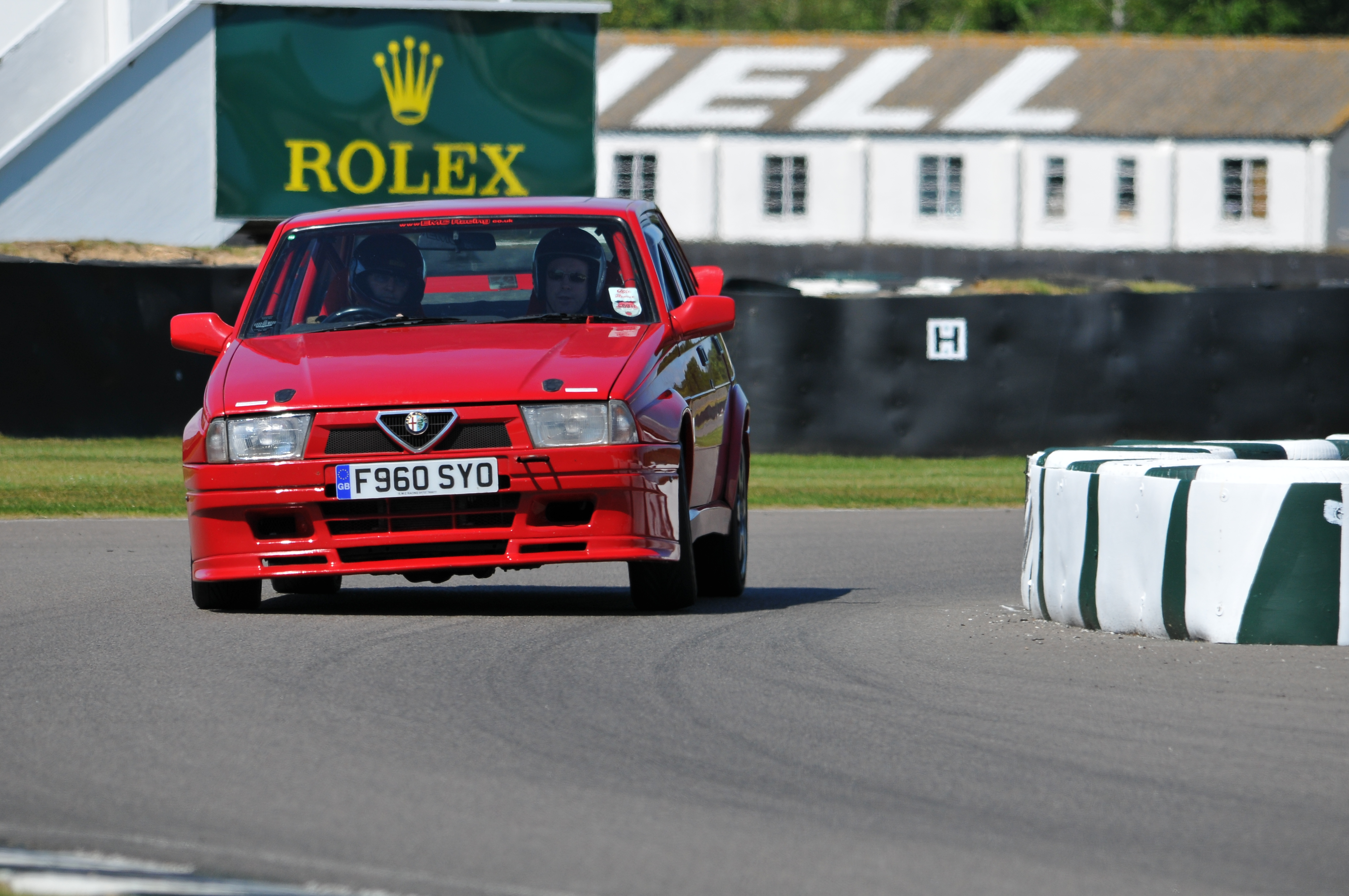 Lancia Motor Club Goodwood Track Day May 21st 2011